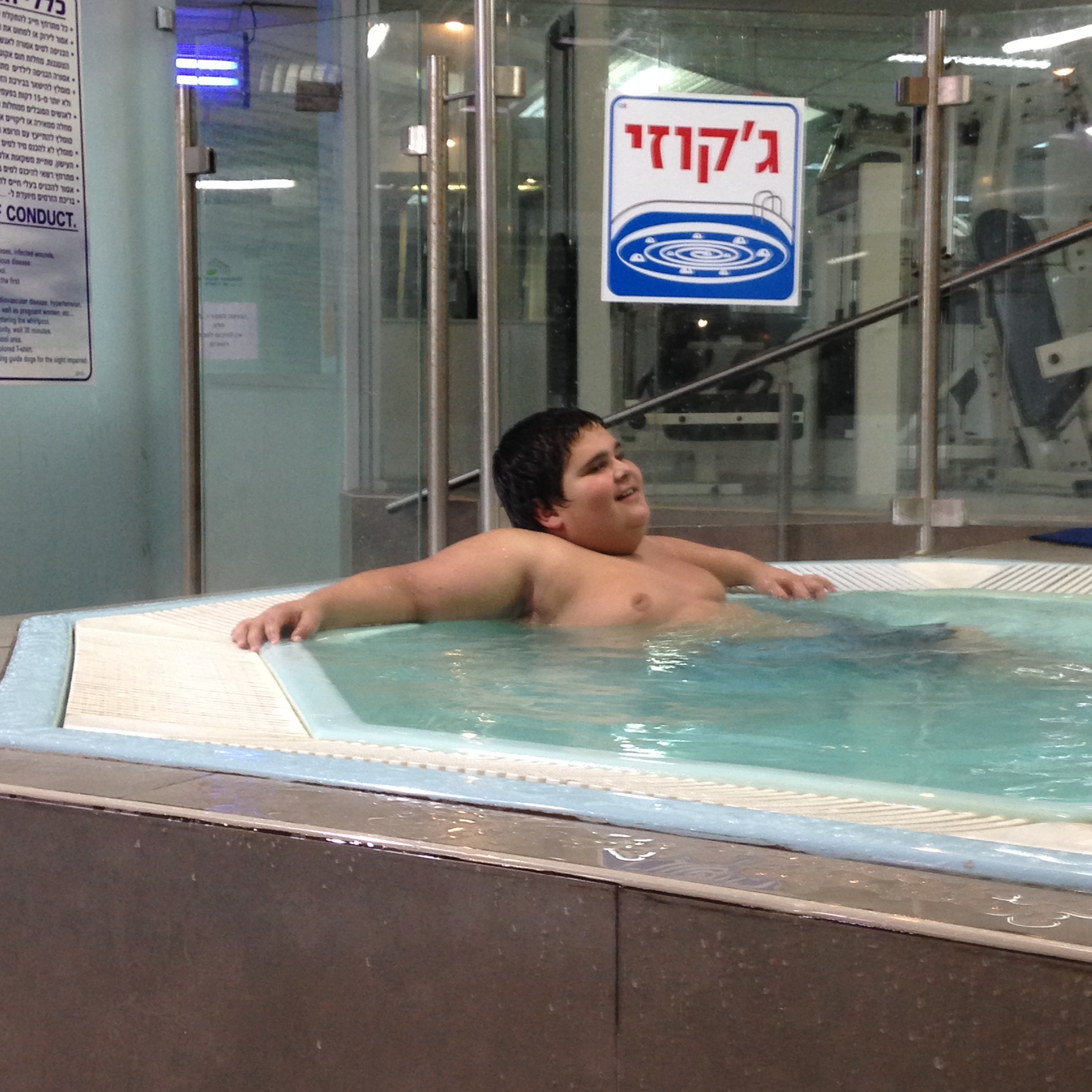 Hot tub